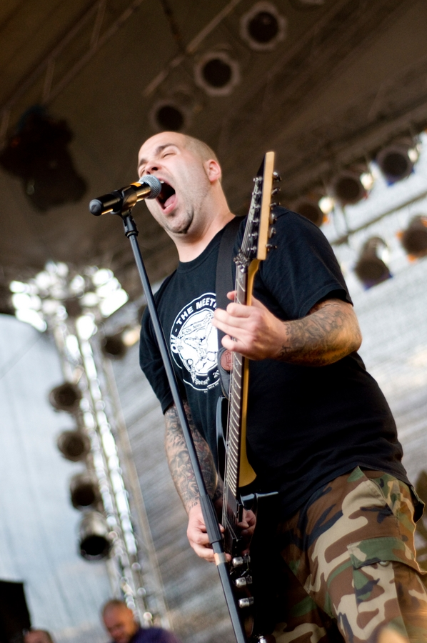 Pascal of Krawallbrüder live on 31rd of July 2010 at Force Attack Festivalnear Klingendorf (Germany, Mecklemburg-Vorpommern)